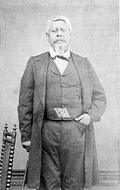 Juan N. Méndez, Mexican general, Liberal politician and interim president of Mexico (1876-77).